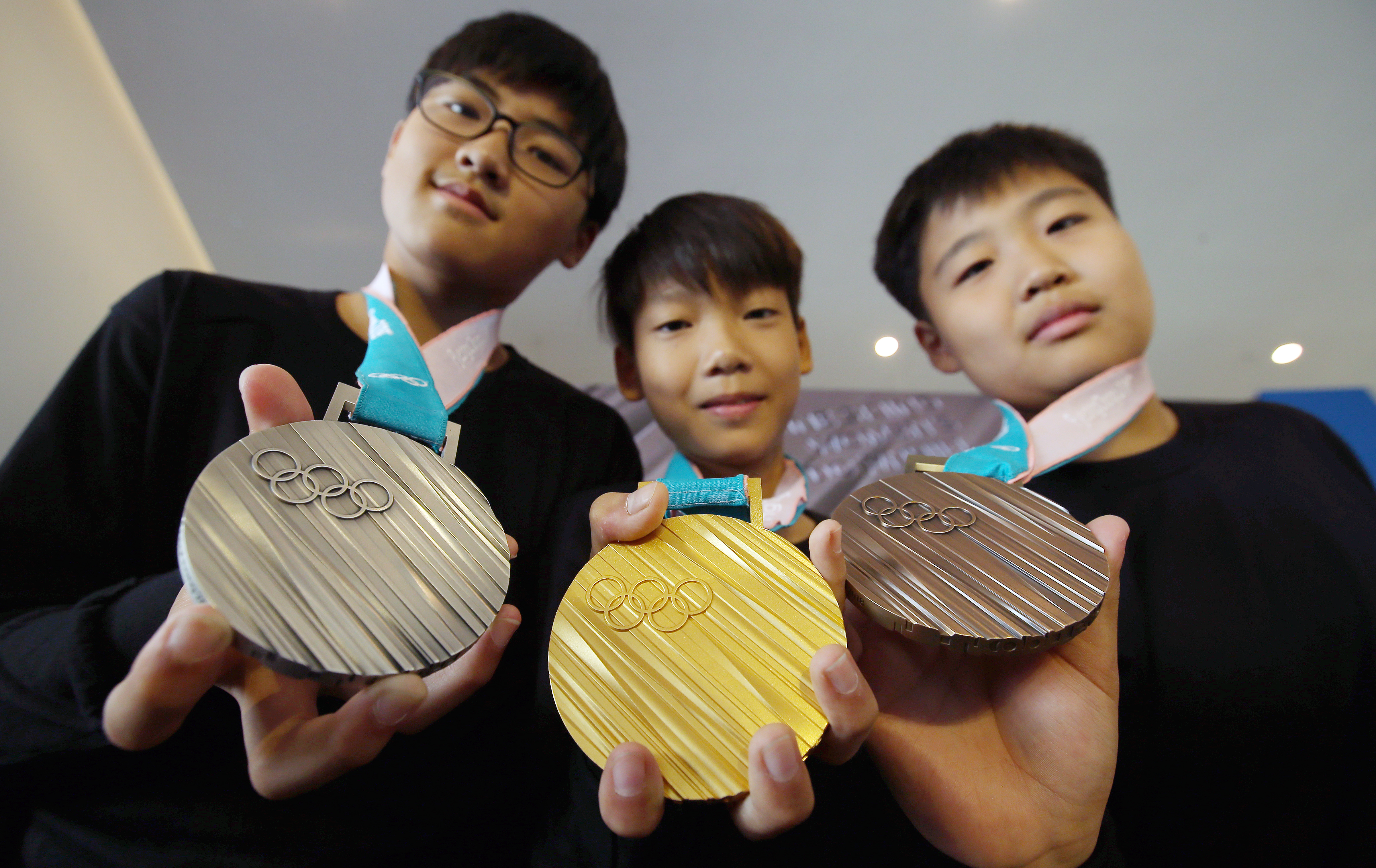 Samples of the Olympic medals XXIII of the Olympic winter Games 2018 in Pyeongchang